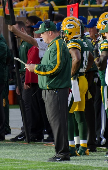 San Francisco 49ers vs. Green Bay Packers at Lambeau Field on September 9, 2012. Photo by Mike Morbeck.